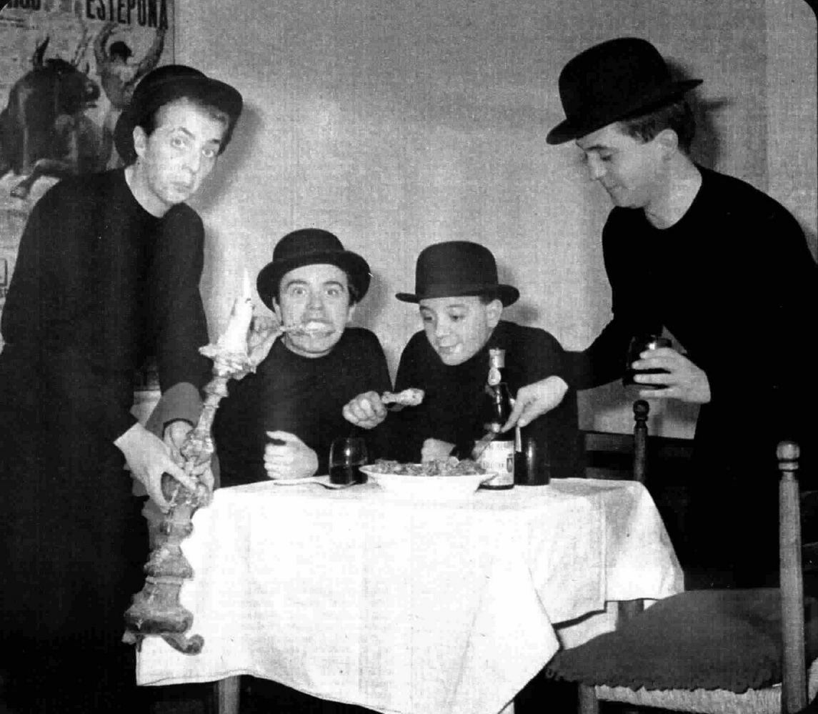 Italian comedy ensamble I Gufi